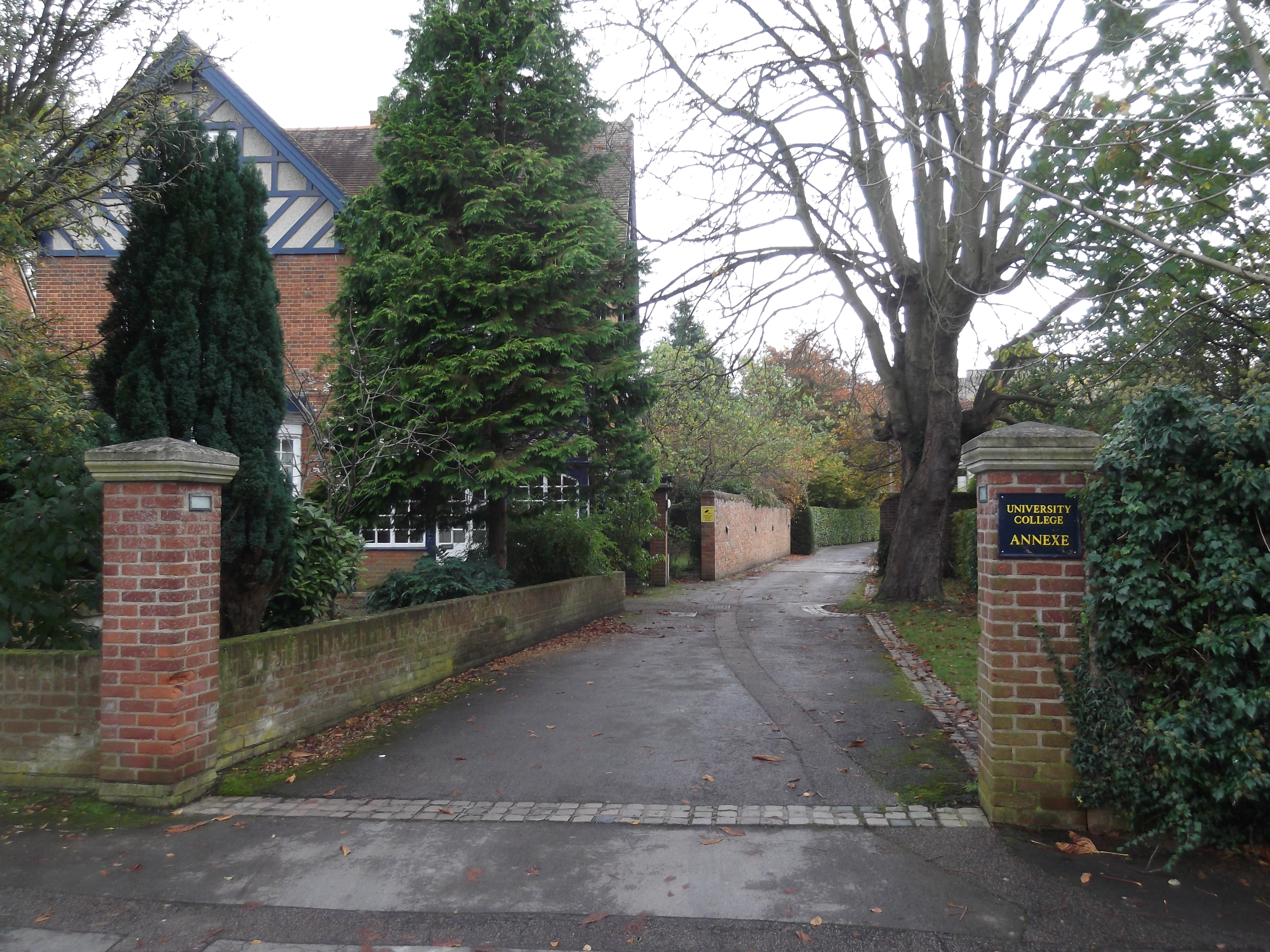 Entrance to the University College Annex on Staverton Road, north Oxford, England.